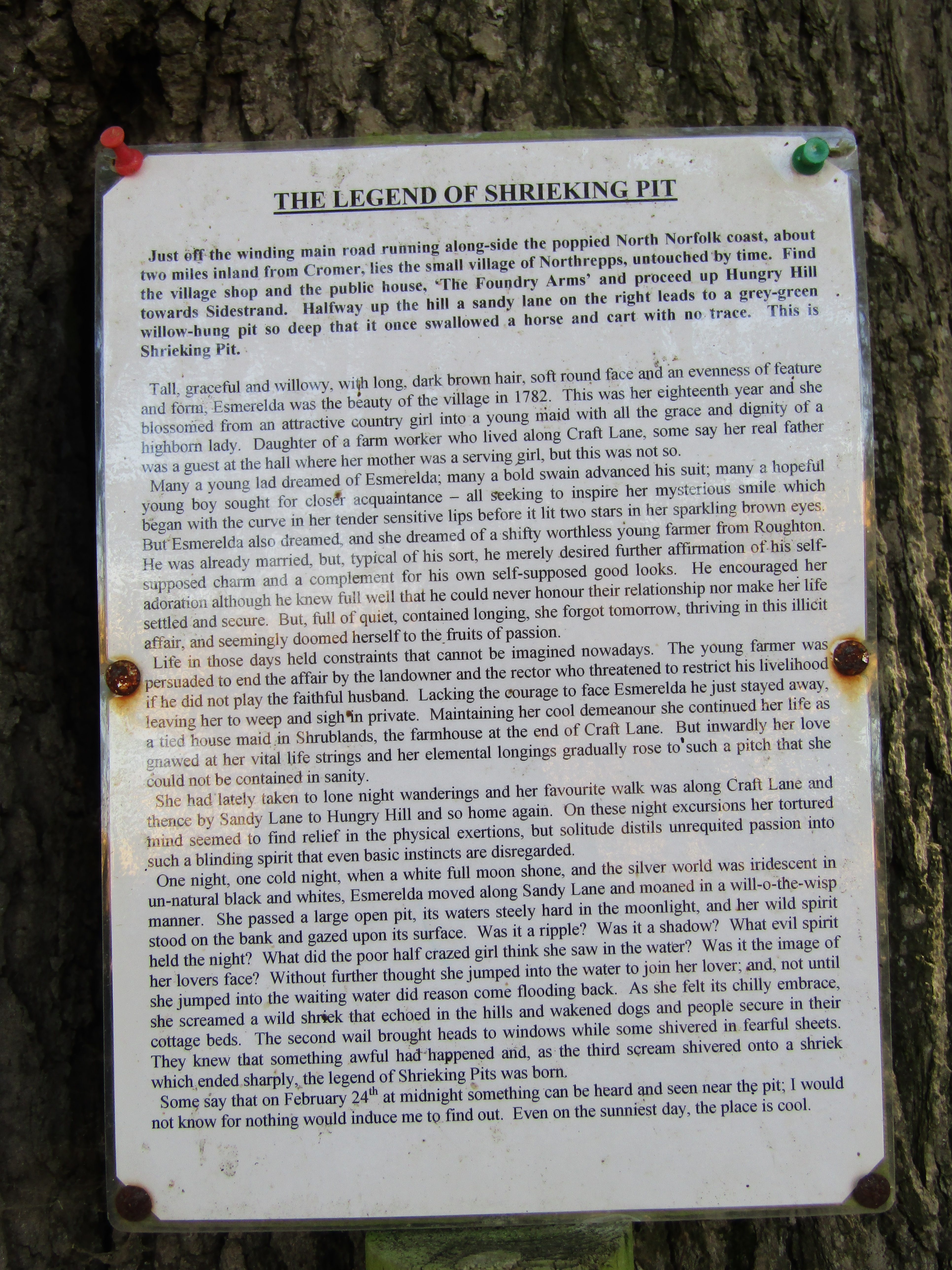 A information sign about the legend of the small pond known as the Shrieking pit on the eastern verge of Sandy Lane, part of the Paston Way footpath located in Hungary Hill within the parish of Northrepps, Norfolk, United Kingdom.